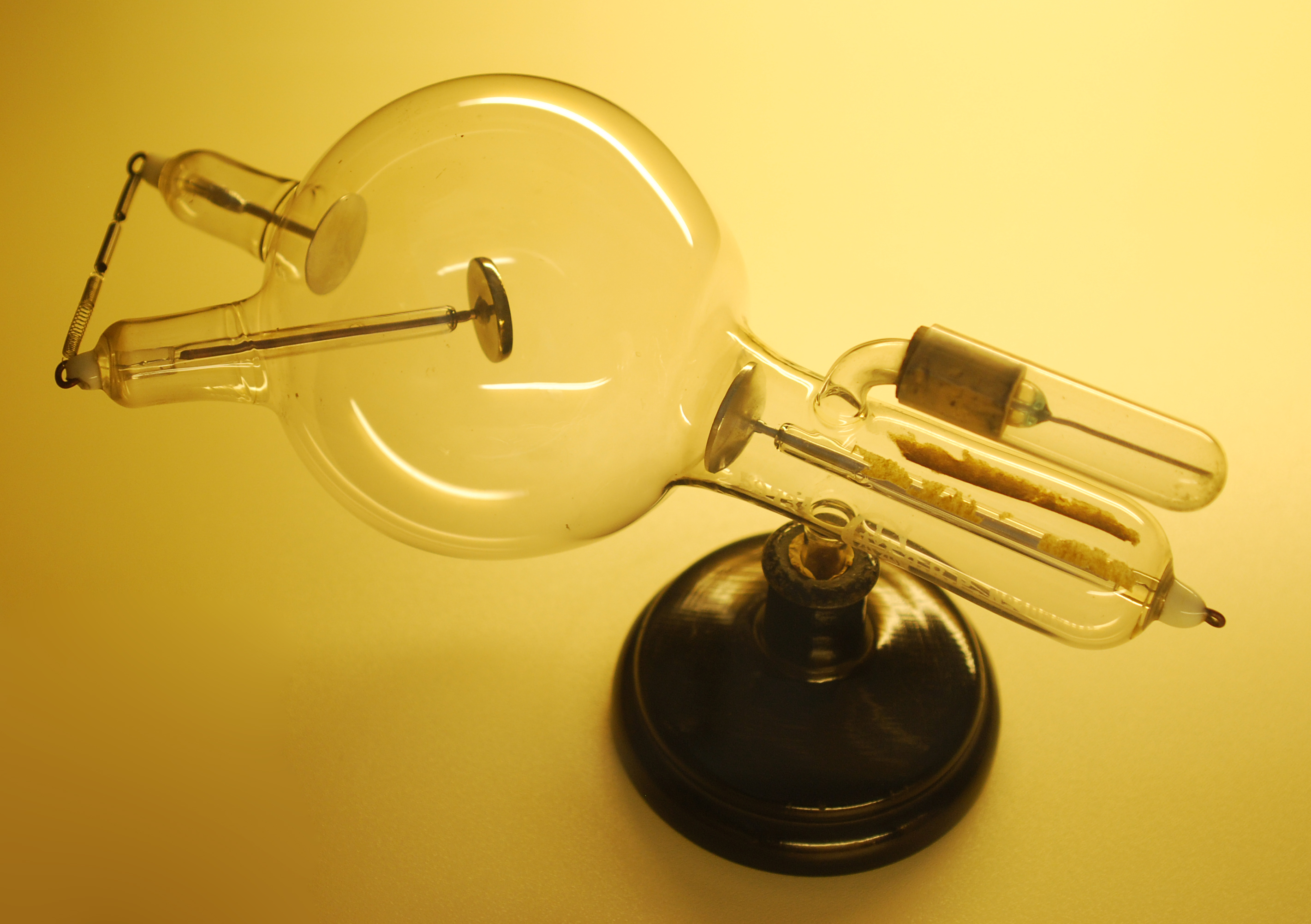 Early Crookes x-ray tube from the Museum of Wilhelm Conrad Röntgen in Würzburg, Germany. These first generation 'cold cathode' x-ray tubes were used from the 1890s until about 1920. The electrode on the right was the concave cathode or negative electrode, which focused a beam of electrons on the angled platinum anode in the center of the bulb. When the electrons struck this they generated x-rays, which passed through the glass wall of the tube at top. The electrode to the left of the anode was called the auxiliary anode. The curved tube attached just above the cathode is an 'osmotic softener' device to adjust the pressure in the tube. Crookes tubes required some gas in them to operate, but as time passed the gas was absorbed by the walls of the tube and the pressure dropped, requiring higher voltage across the tube which generated 'harder' x-rays, until eventually the tube stopped working. The softener consists of a tiny palladium tube, closed on the outer end, which projects through the glass wall of the tube. It is protected by a glass cap. When the pressure got too low, the cap was removed and a flame was played over the palladium tube. Hydrogen ions from the flame diffuse through the palladium into the tube, raising the pressure. For more information see Frederick F. Strong, (1908) High Frequency Currents, Rebman Co., New York, p.192-200